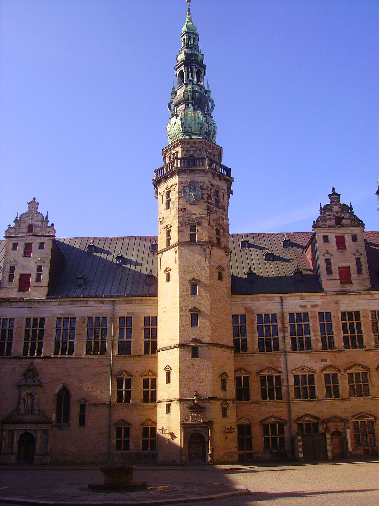 Tower of Kronborg Castle, Helsingör